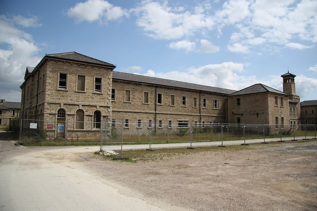 St.John's Hospital The County Pauper Lunatic Asylum opened in 1852, after numerous name changes it became St.John's hospital in the 1960s. Closed in 1989, the site has been partly developed with modern housing but 20 years later most of the buildings remain empty and semi-derelict.